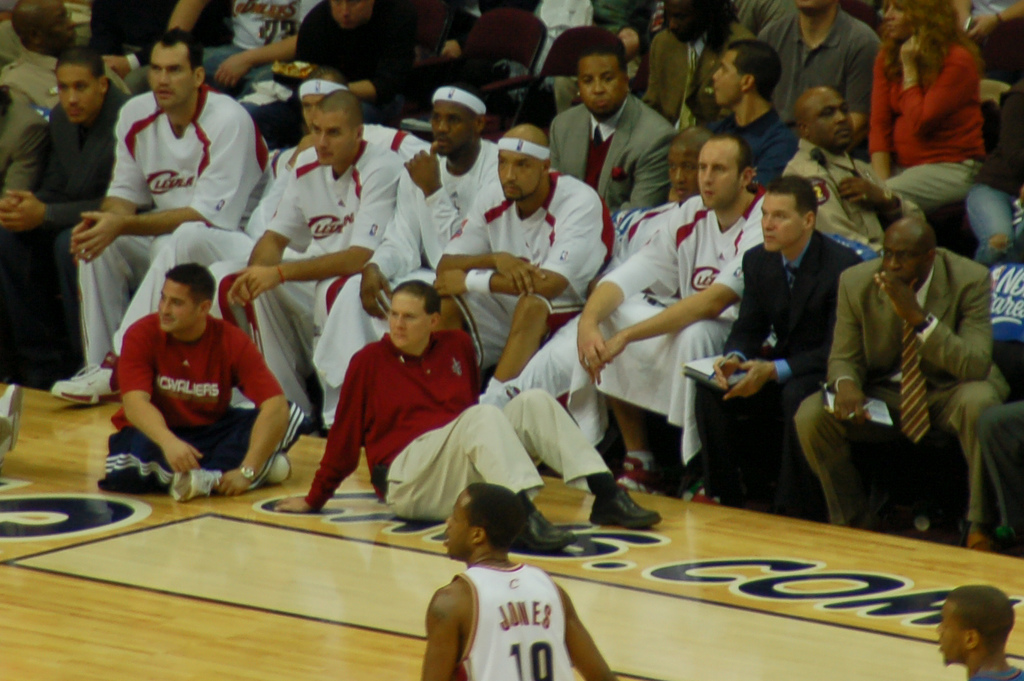 Cleveland Cavaliers players on the bench on opening night, Nov. 1, 2006. Left to right: Scot Pollard, (obscured), Sasha Pavolvic, LeBron James, Drew Gooden, Zydrunas Ilgauskas, assistant coach Michael Malone, assistant coach Kenny Natt